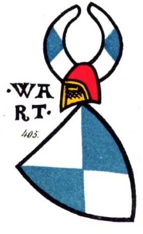 Coat of arms of the barons of Wart